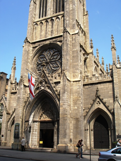 Looking northeast across Broadway at Grace Church. created may 27, 2006